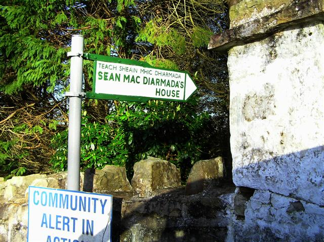 Sign, Seán Mac Diarmada's House Seán Mac Diarmada (February 28, 1883 – May 12, 1916) (born John MacDermott, usually used the name Sean MacDermott) was one of the leaders of the 1916 Easter Rising in Ireland - more at Sean_MacDiarmada